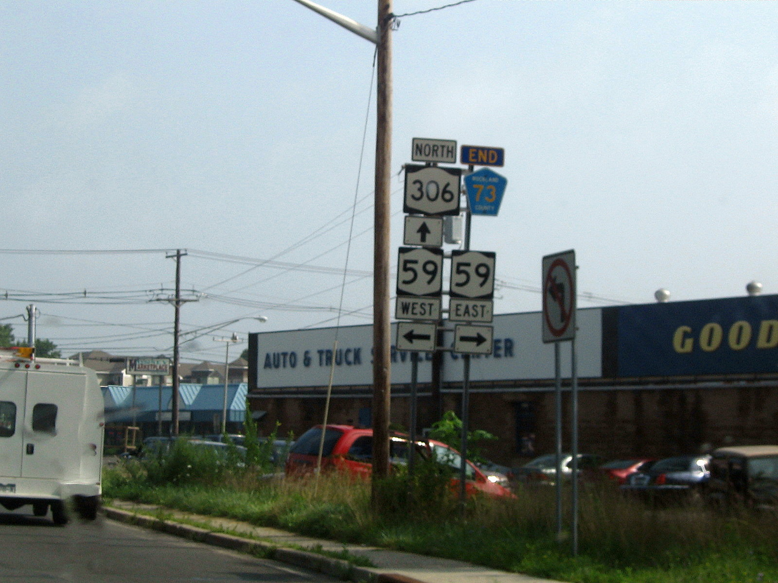 The northern terminus of Rockland County Road 73 as it becomes the southern terminus of New York State Route 306 at the intersection with New York State Route 59 in Monsey, New York. Until 1980 RCR 73 was part of NY 306 too.